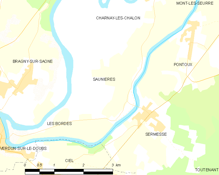 Map of French municipality